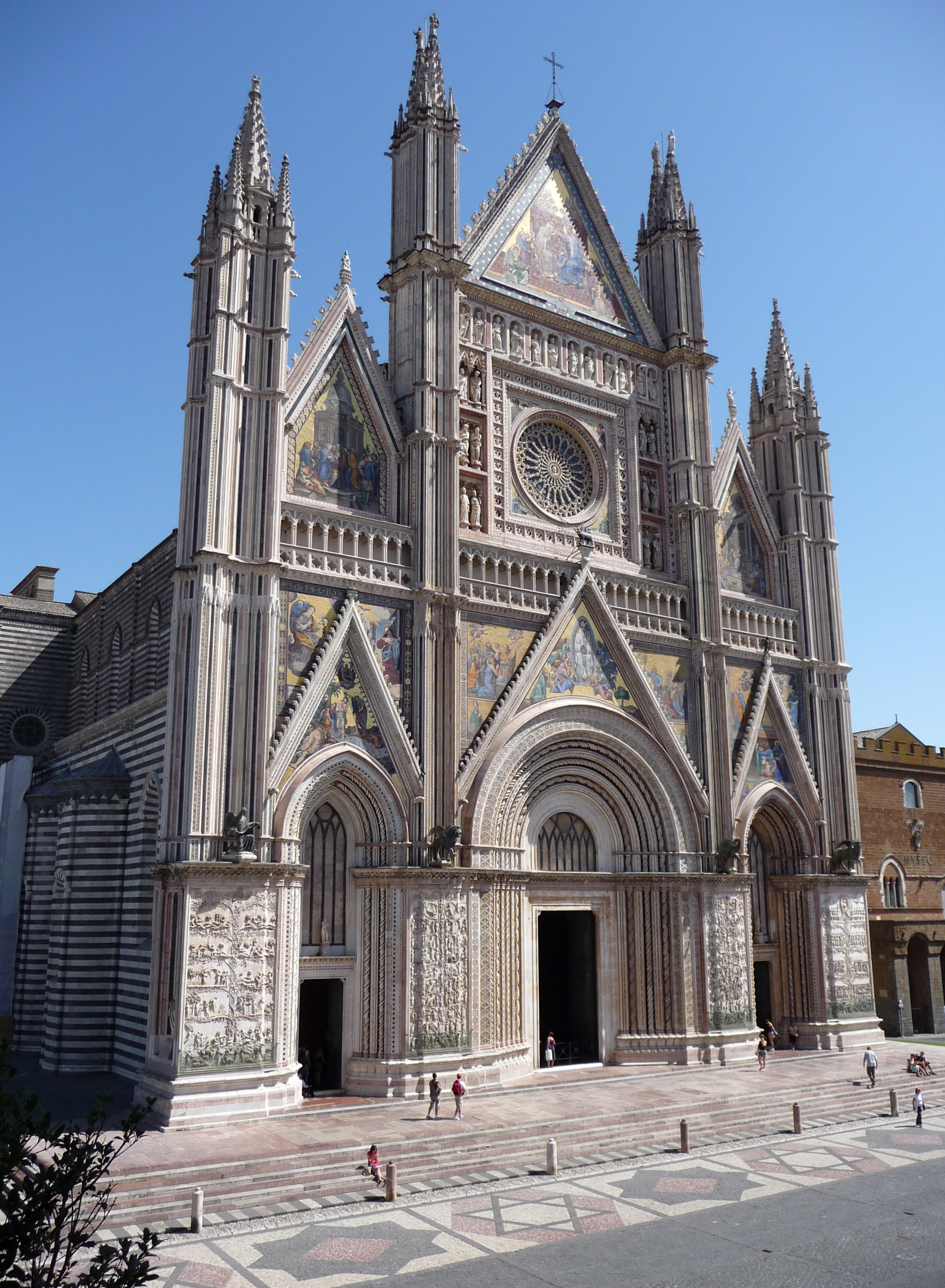 Facade of the Duomo of Orvieto, Italy.